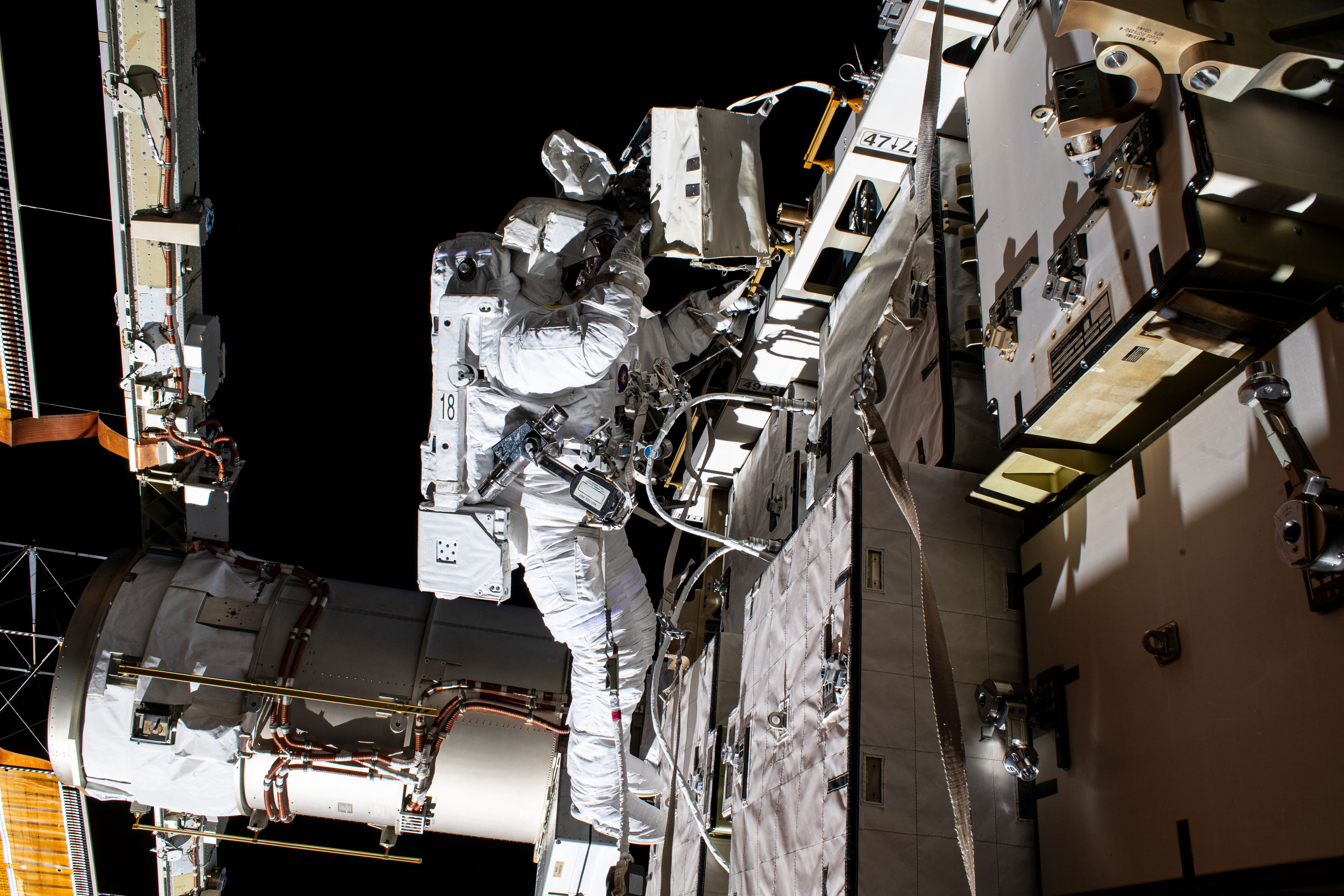 iss063e033443 (June 26, 2020) --- NASA astronaut Bob Behnken is pictured during a spacewalk to swap batteries and upgrade power systems on the International Space Station's Starboard-6 truss structure. Behnken was joined during the six-hour and seven-minute excursion by NASA astronaut Chris Cassidy (out of frame).